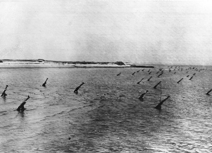 Wirephoto of mined anti-landing obstructions emplaced off the Normandy coast as part of the German defensive system, circa early June 1944. Three pillboxes are visible in the background.